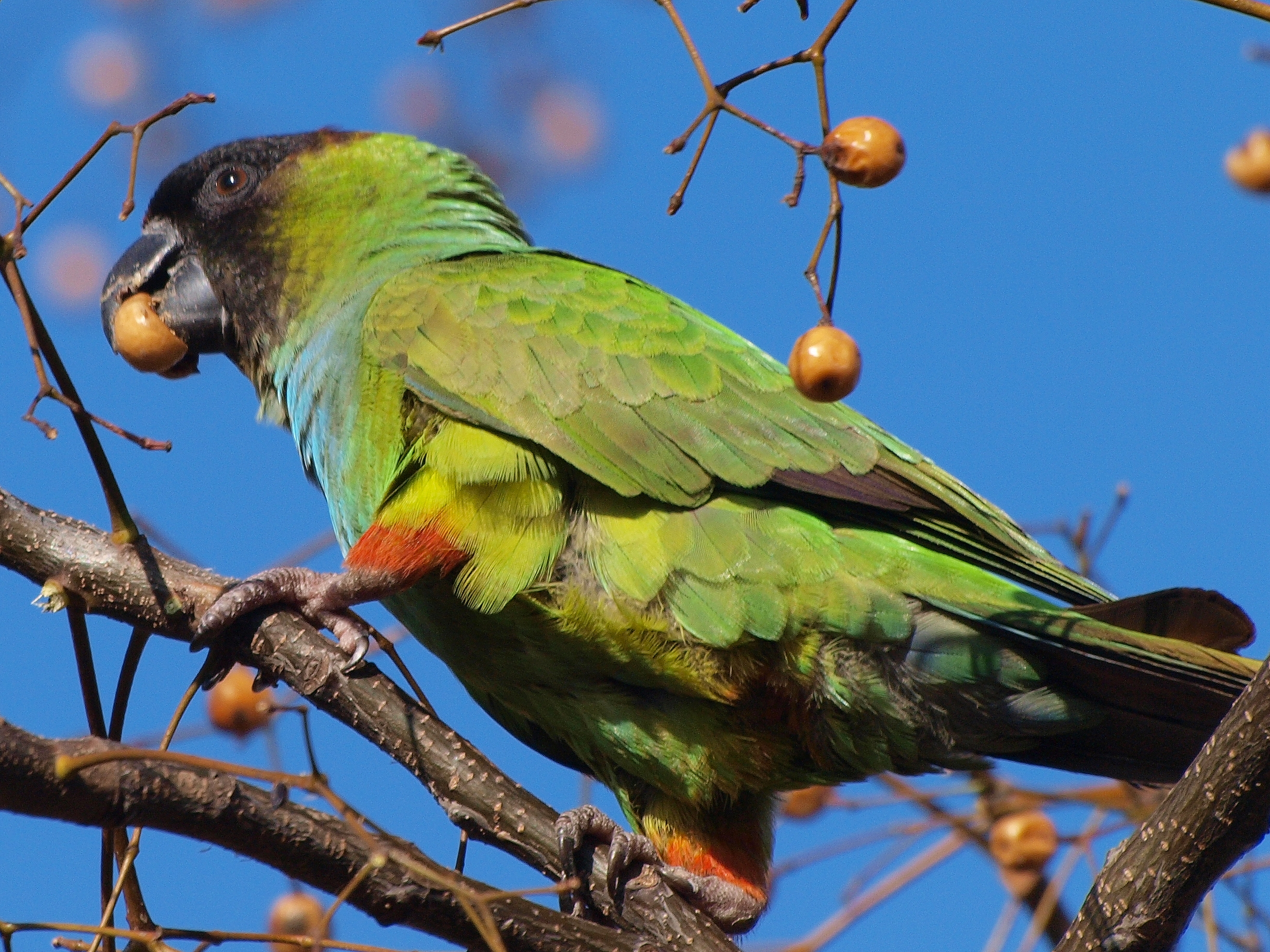 A Nanday Parakeet (also known as the Black-hooded Parakeet and Nanday Conure) at Isla Demarchi, Buenos Aires, Argentina.